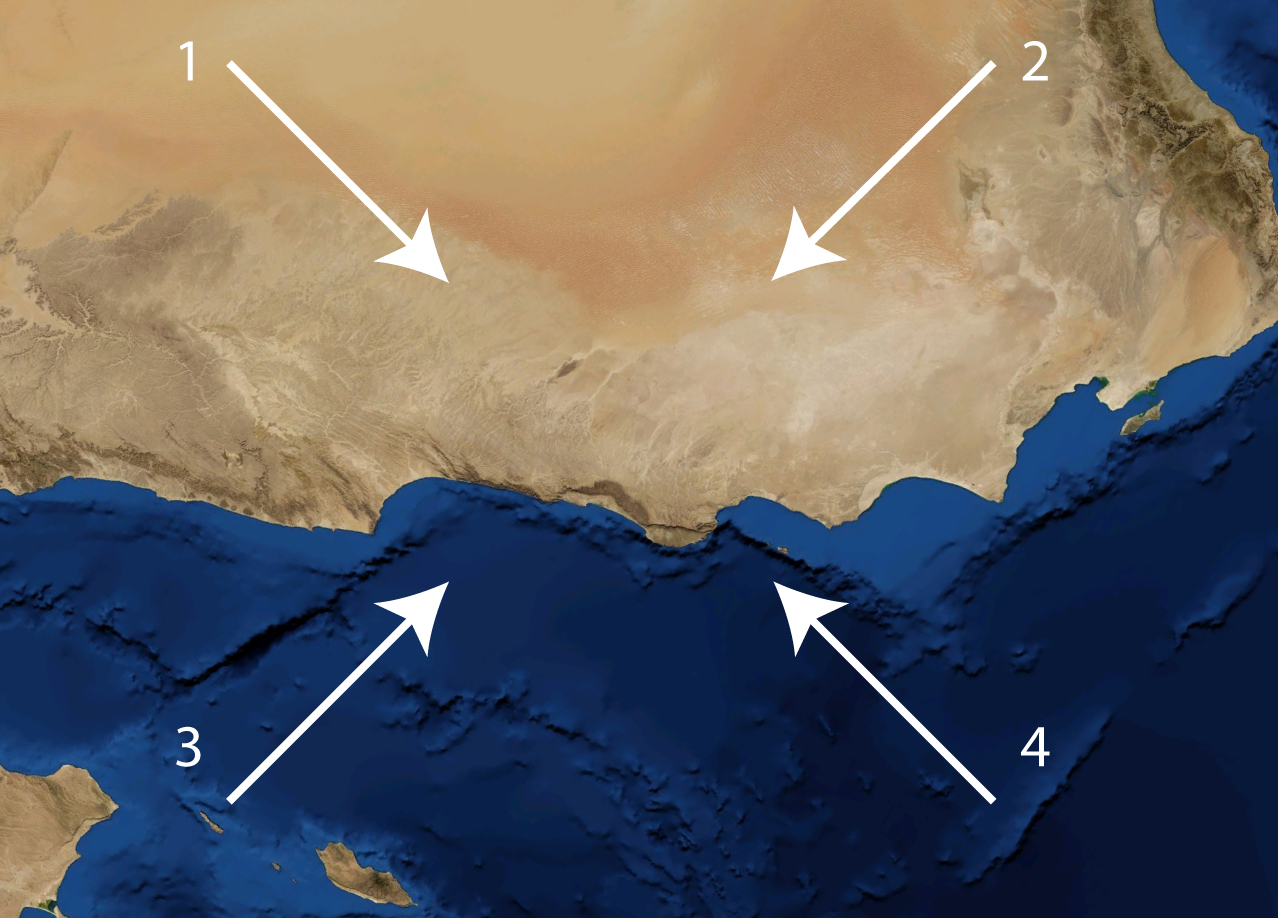 Winds quadrants